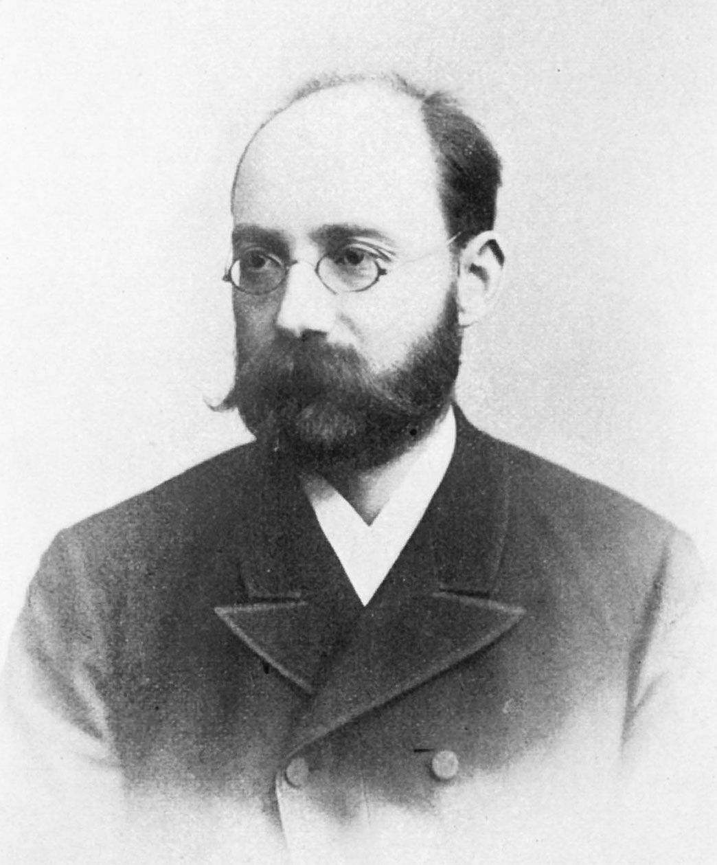 Swedish poet Karl Alfred Melin (1849-1919).